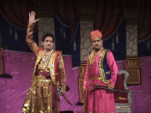 World-renowned artist Pandit Ram Dayal Sharma and Dr. Devendra Sharma performing Nautanki